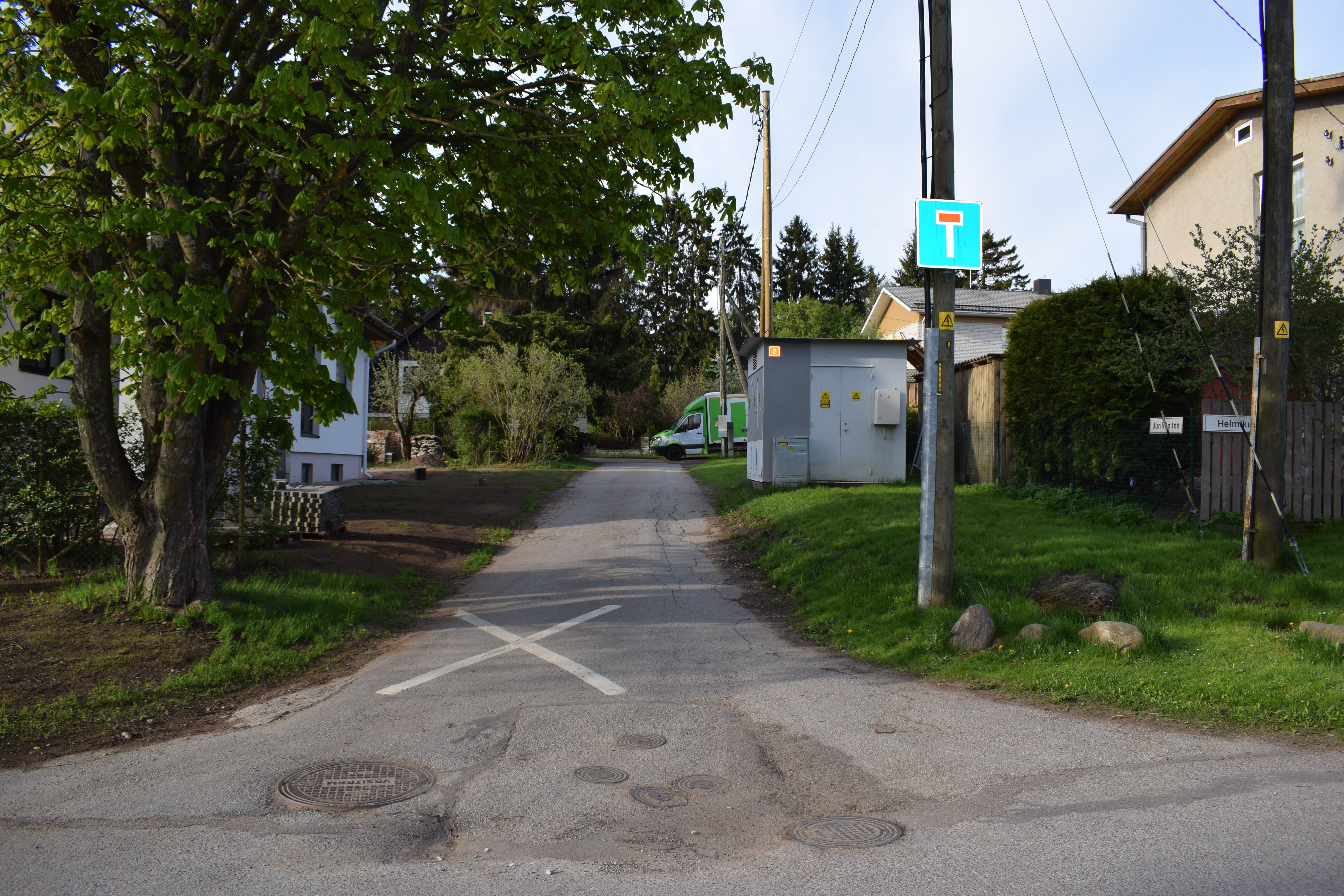 Jürilille street